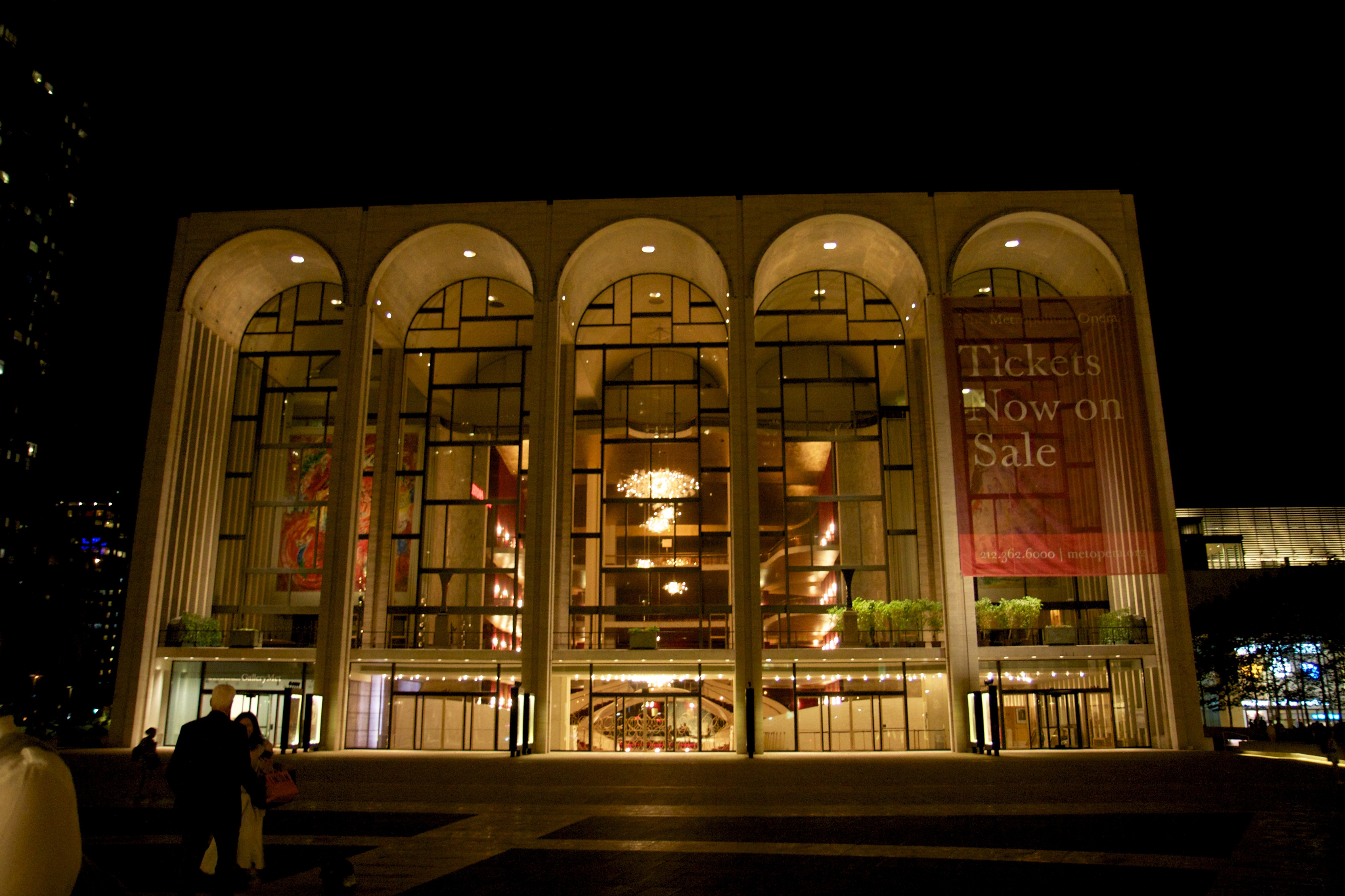 Taken at the Metropolitan Opera House at Lincoln Center in the evening.